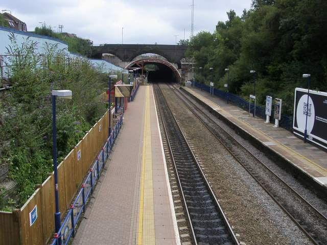 Gerrards Cross Railway Station Gerrards Cross Railway Station looking towards the Packhorse Road bridge